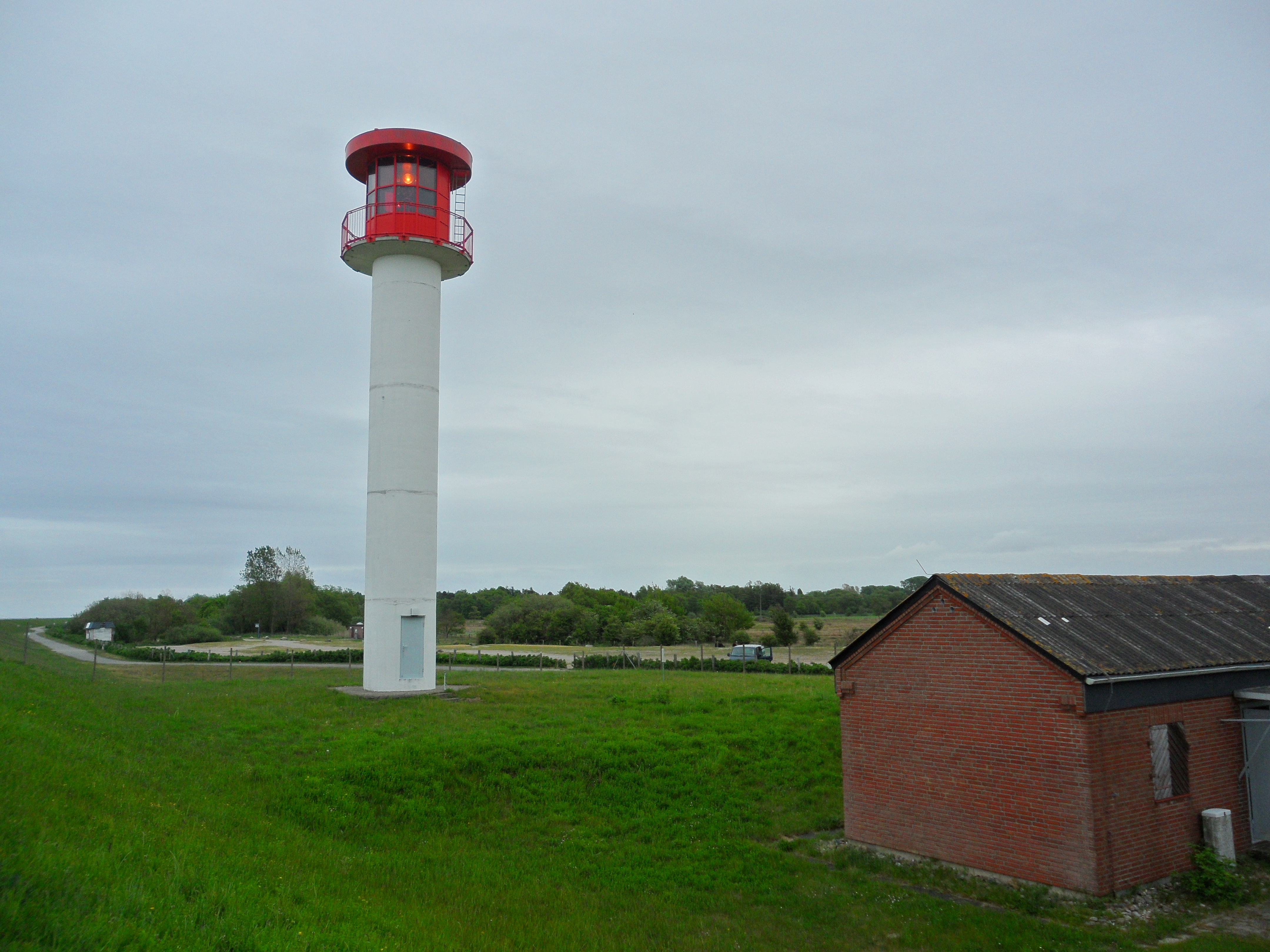 During target practice the red and green light are shown